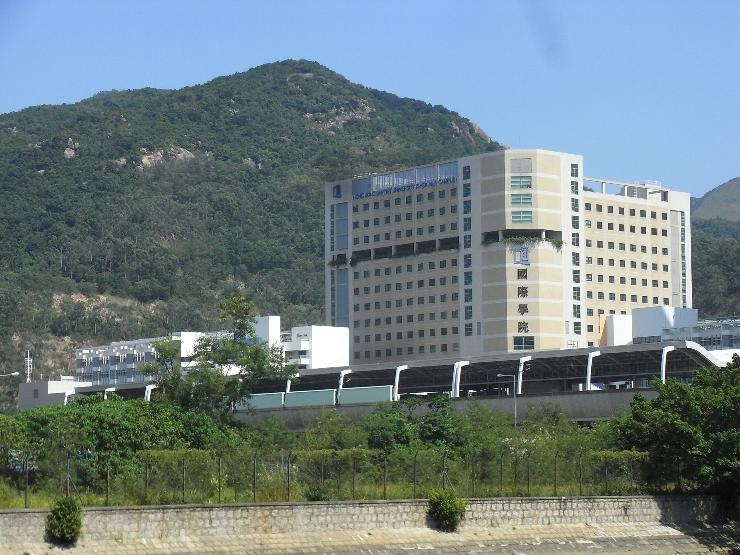 Views from Siu Lek Yuen Road